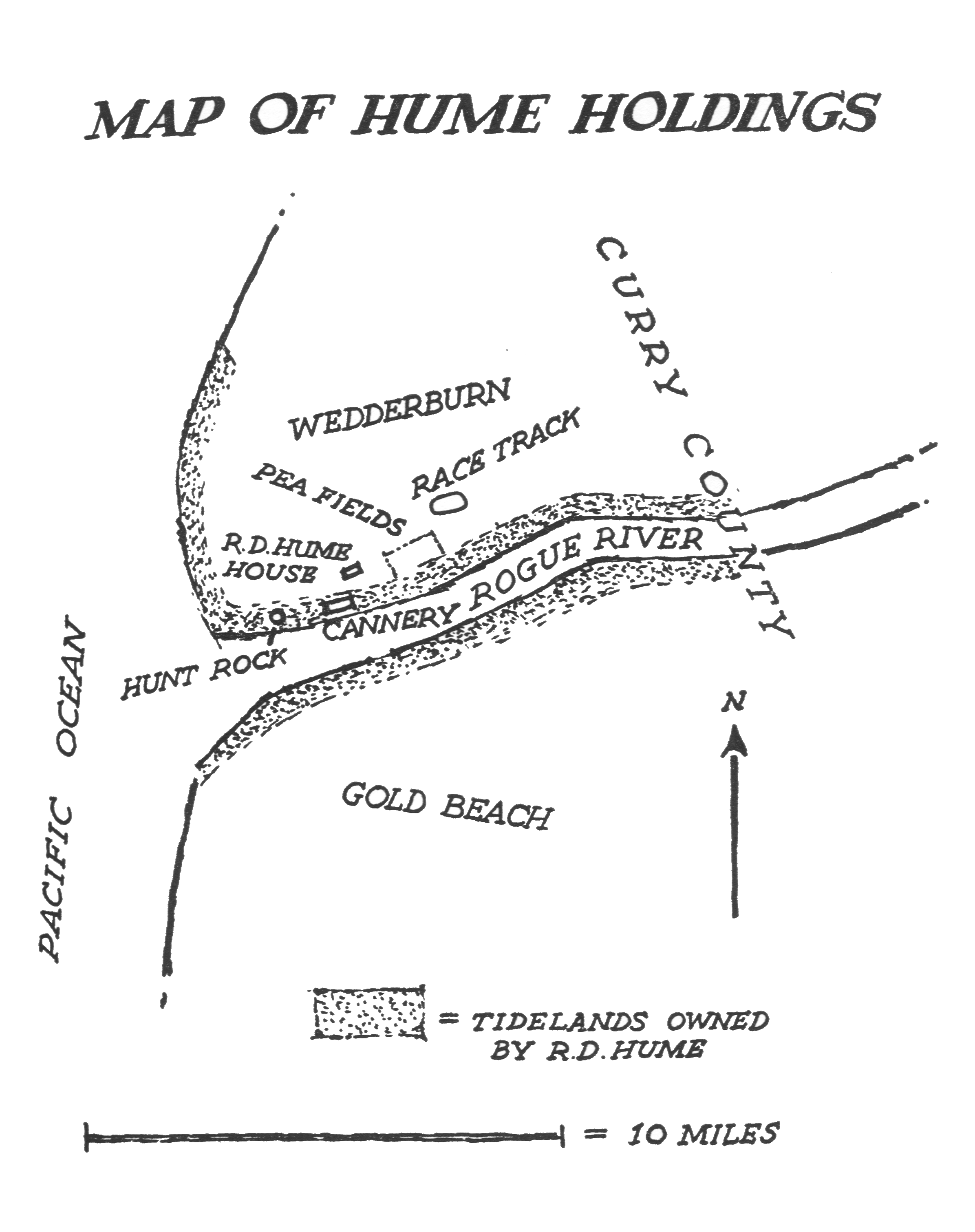 Map of the holdings of Robert Deniston Hume along the lower Rogue River in the U.S. state of Oregon. Hume operated salmon canneries and hatcheries on the river between 1877 and 1908.